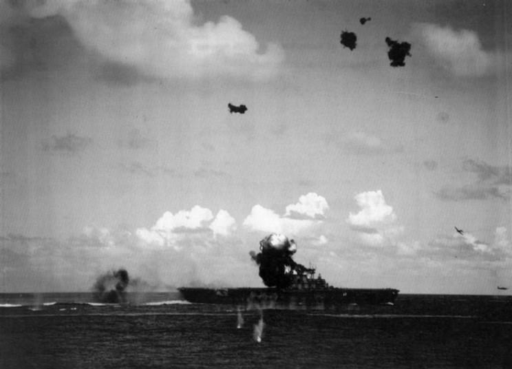 A Japanse Aichi D3A "Val" dive-bomber crashes into the U.S. Navy aircraft carrier USS Hornet (CV-8) during the Battle of the Santa Cruz Islands on 26 October 1942 at 09:14 hrs. Note the two Nakajima B5N2 "Kate" torpedo bombers on the right.